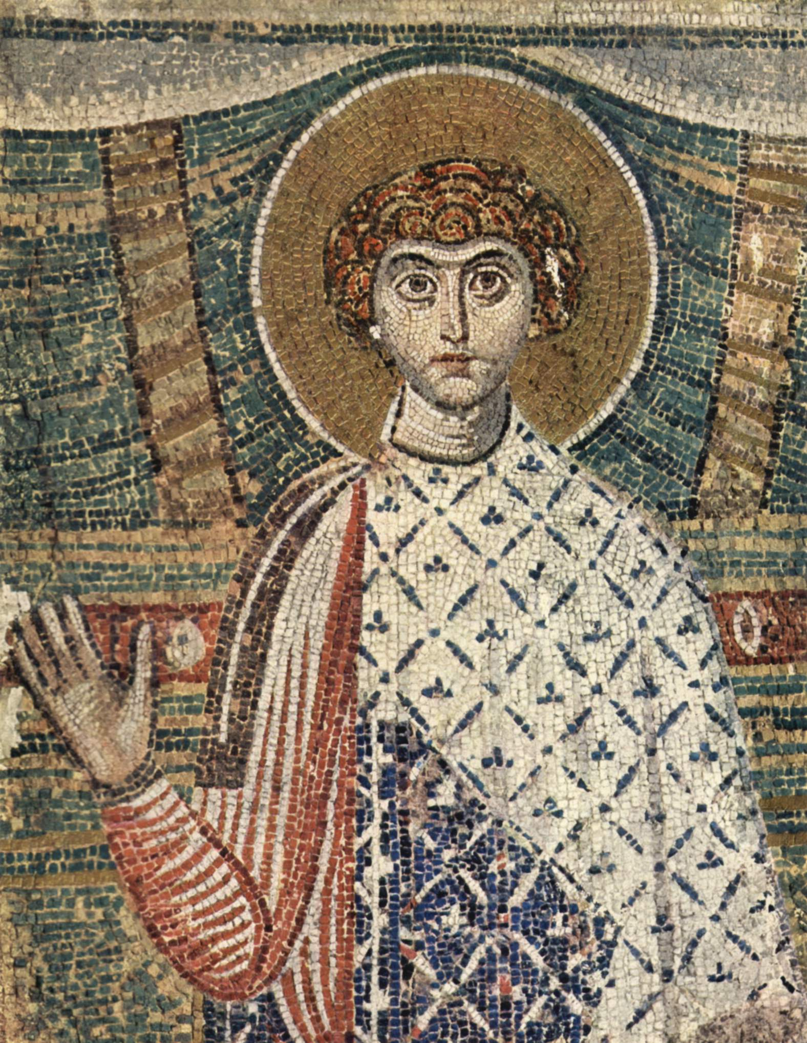 St George (formerly identified as St Demetrios) is depicted full length and frontal between two children. See [2]